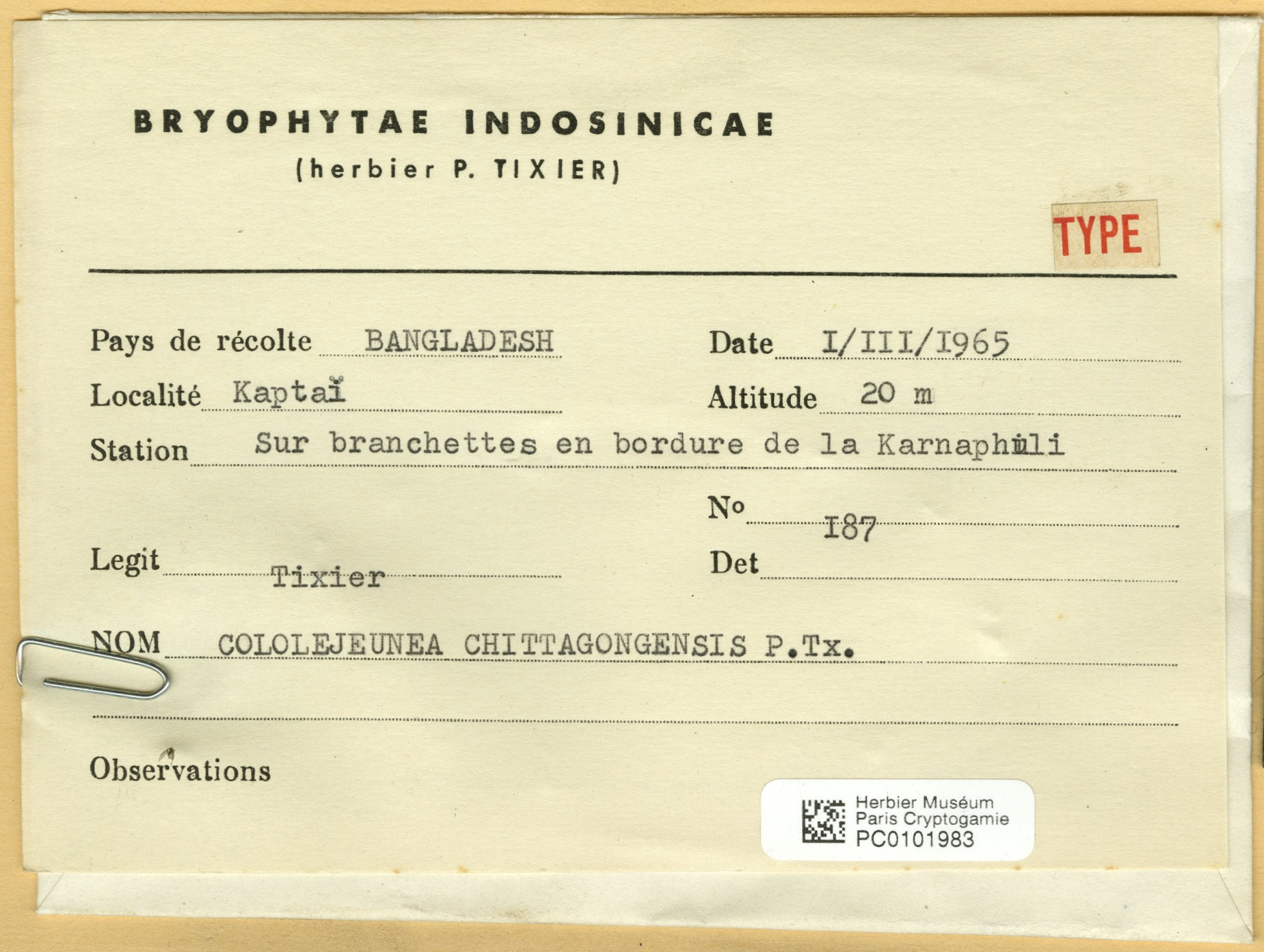 Cololejeunea chittagongensis, holotype index card at Muséum national d’histoire naturelle, Paris